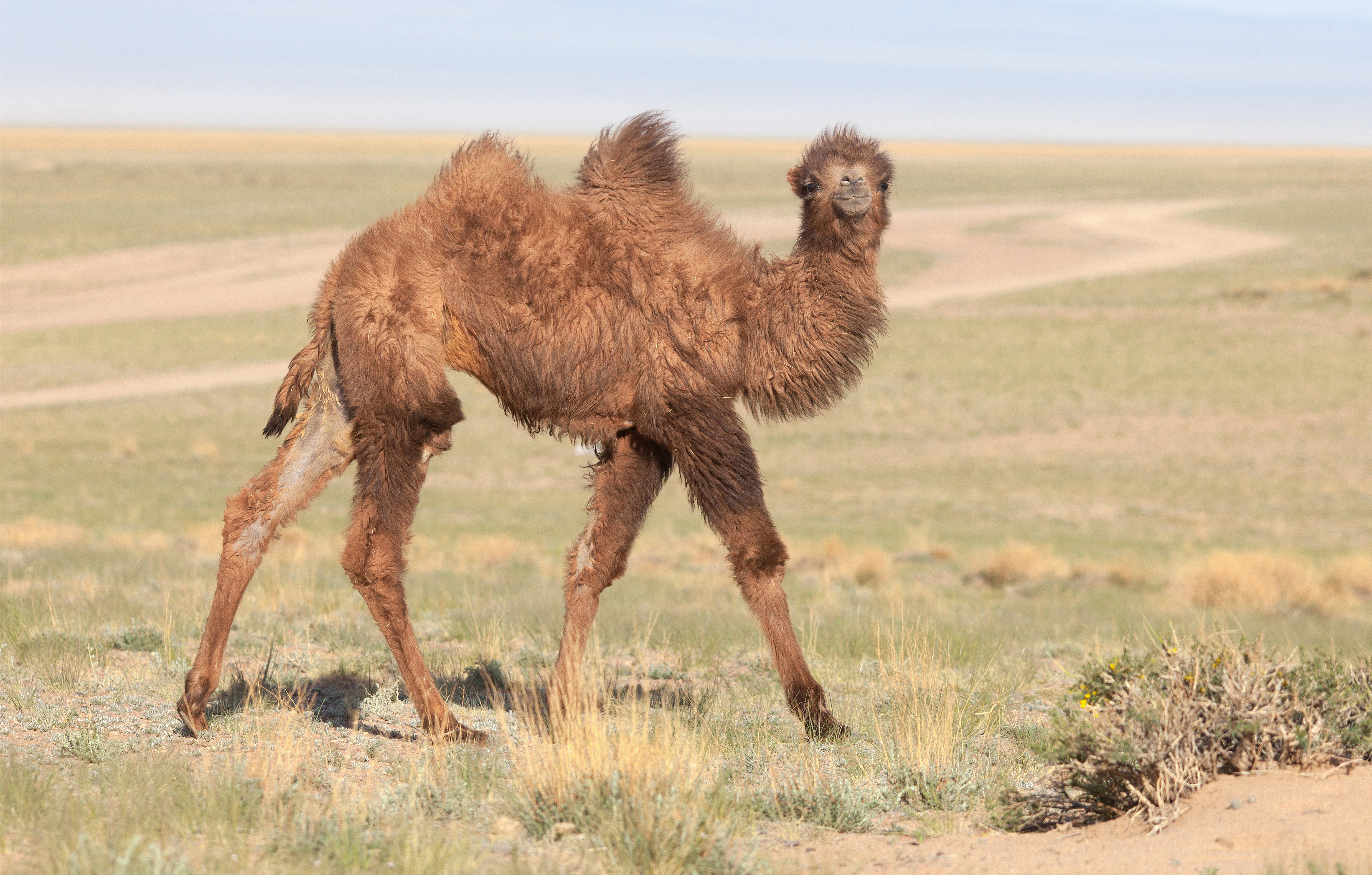 Camelus bactrianus in Western Mongolia. Khovd Aymak